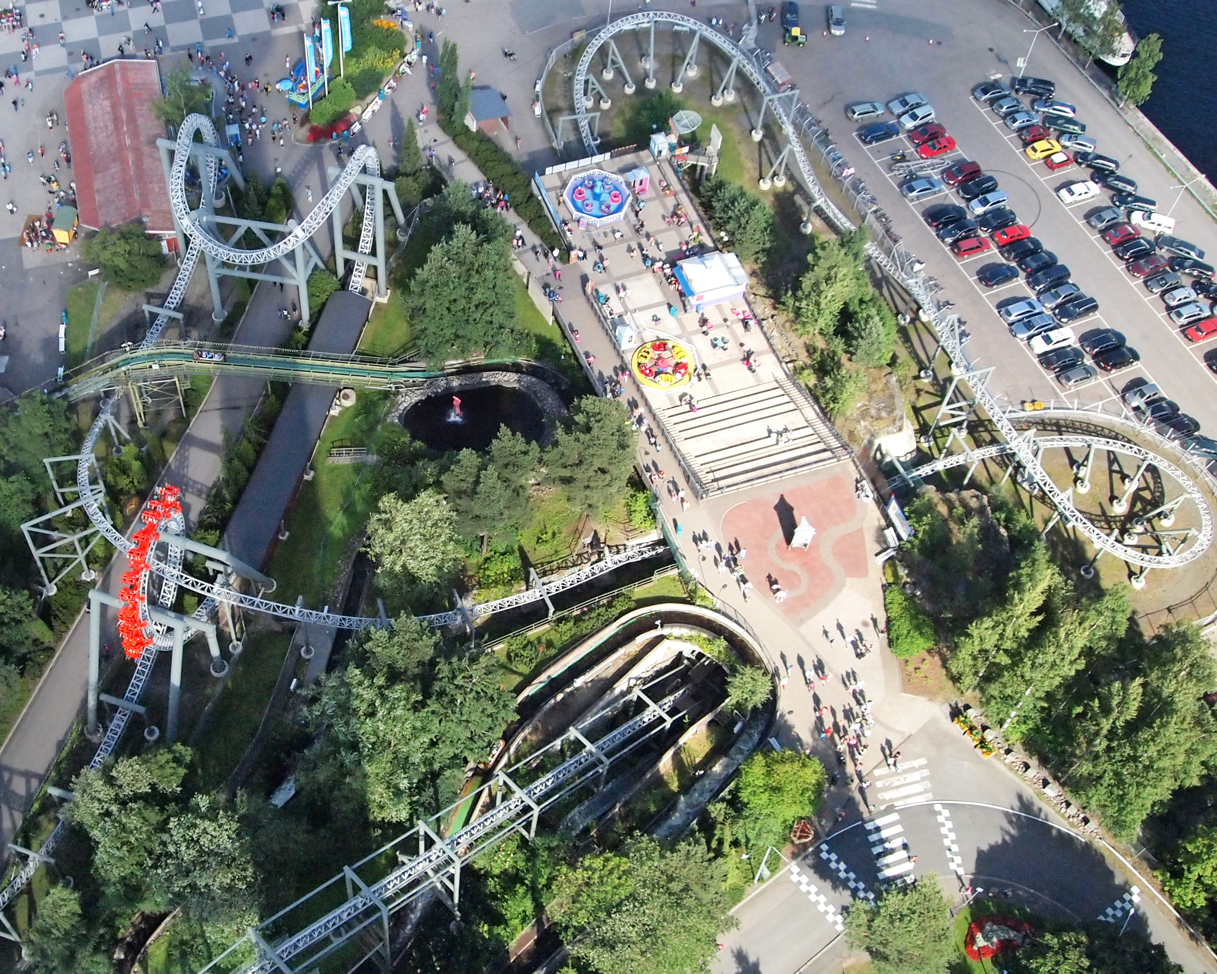 Amusement ride Tornado in Särkänniemi amusement park, Tampere. View from the tower Näsinneula. This photograph was taken with a Olympus E-PL1.